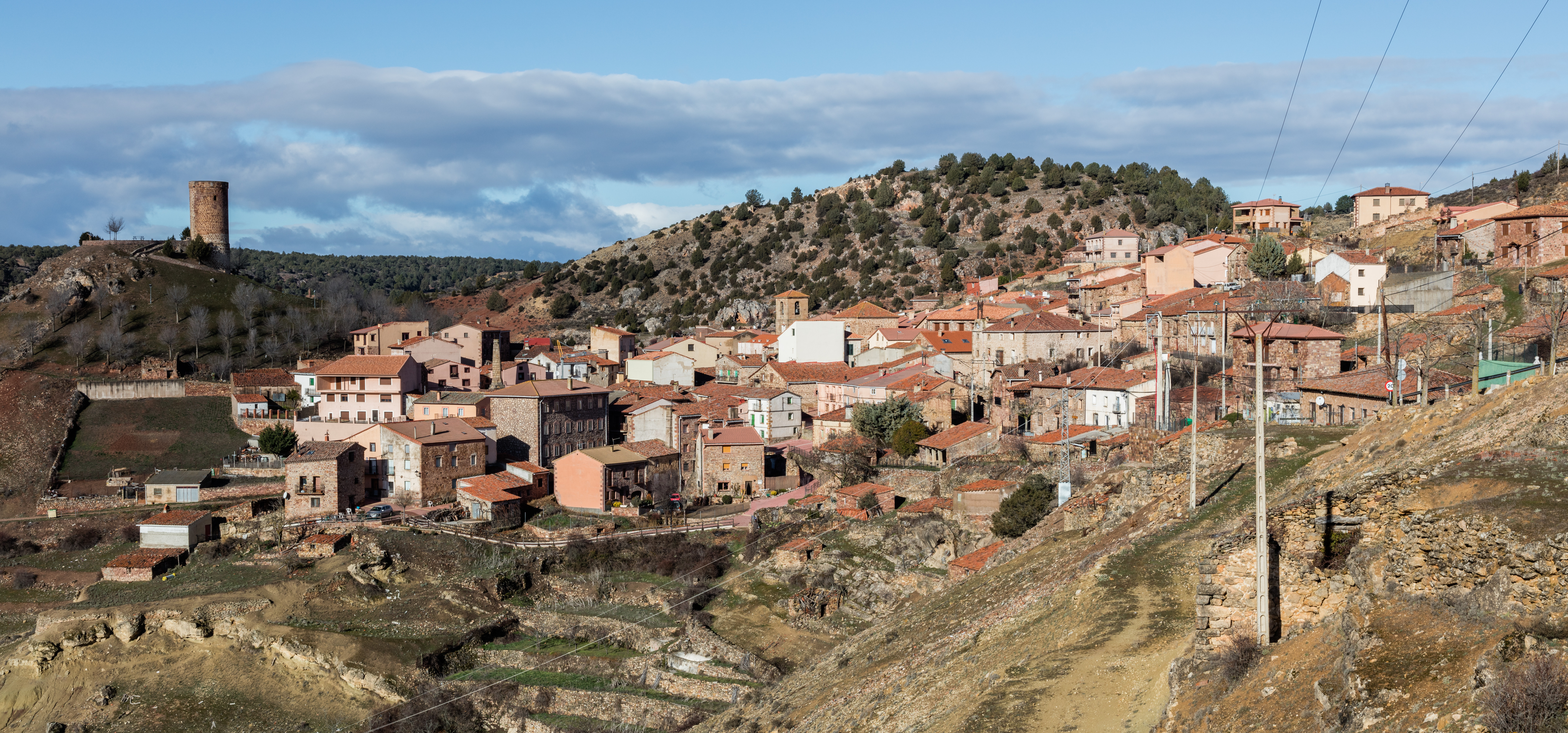 Cobeta and its castle, Guadalajara, Spain